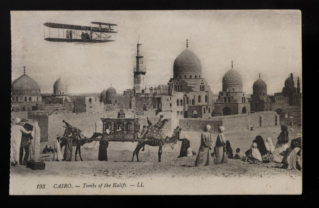 Procession of people in front of lots of domed buildings, airplane in left corner